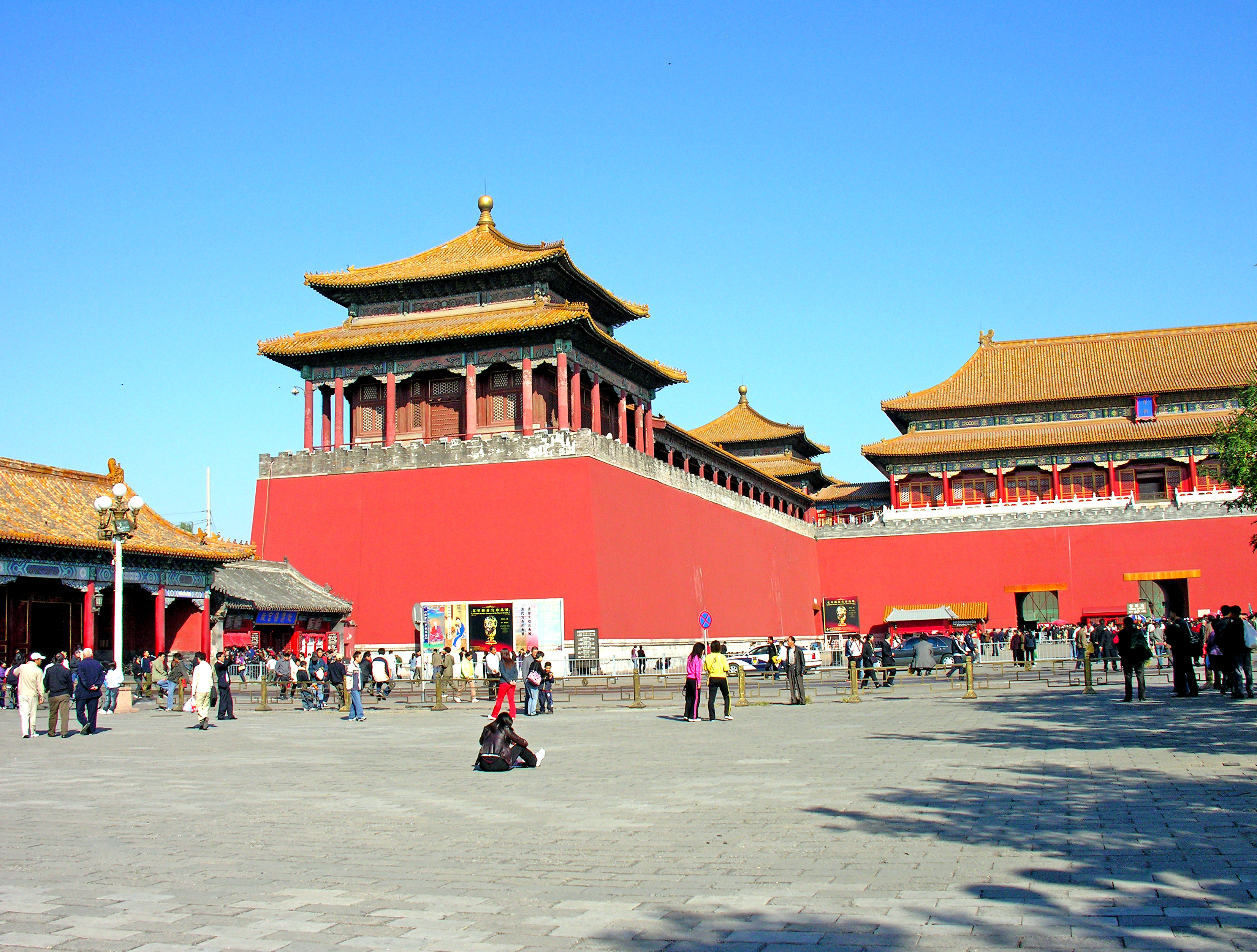 Beijing - Forbidden City(view NW) - Meridian Gate The Meridian Gate, is the southern entrance of the Forbidden City. Chinese emperors believed that they were the Sons of Heaven and therefore should live at the center of the universe. They believed the Meridian Line went through the Forbidden City, so this gate was named accordingly. It is the largest entrance and is the main gate to the Forbidden City. The gate is surmounted by five pavilions named Wufenglou, which means "The Tower of the Five Phoenix".